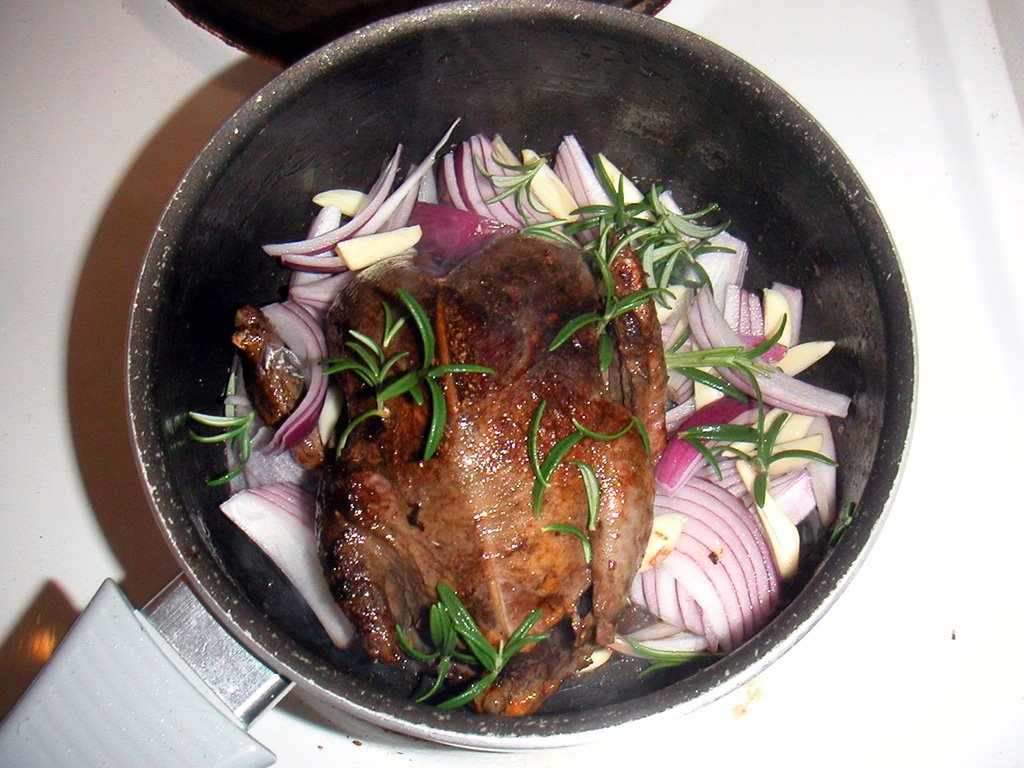 Wood pigeon?